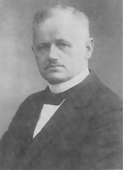 Reverend Johannes Schmidt-Vodder. Thoughout the interwar years, member of the Danish Folketing representing the German minority and leader of this community.